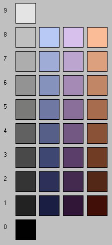 The image shows three “colors” in the Munsell color model. Each color differs in value from top to bottom in equal perception steps, while keeping the "hue" and "chroma" constant.